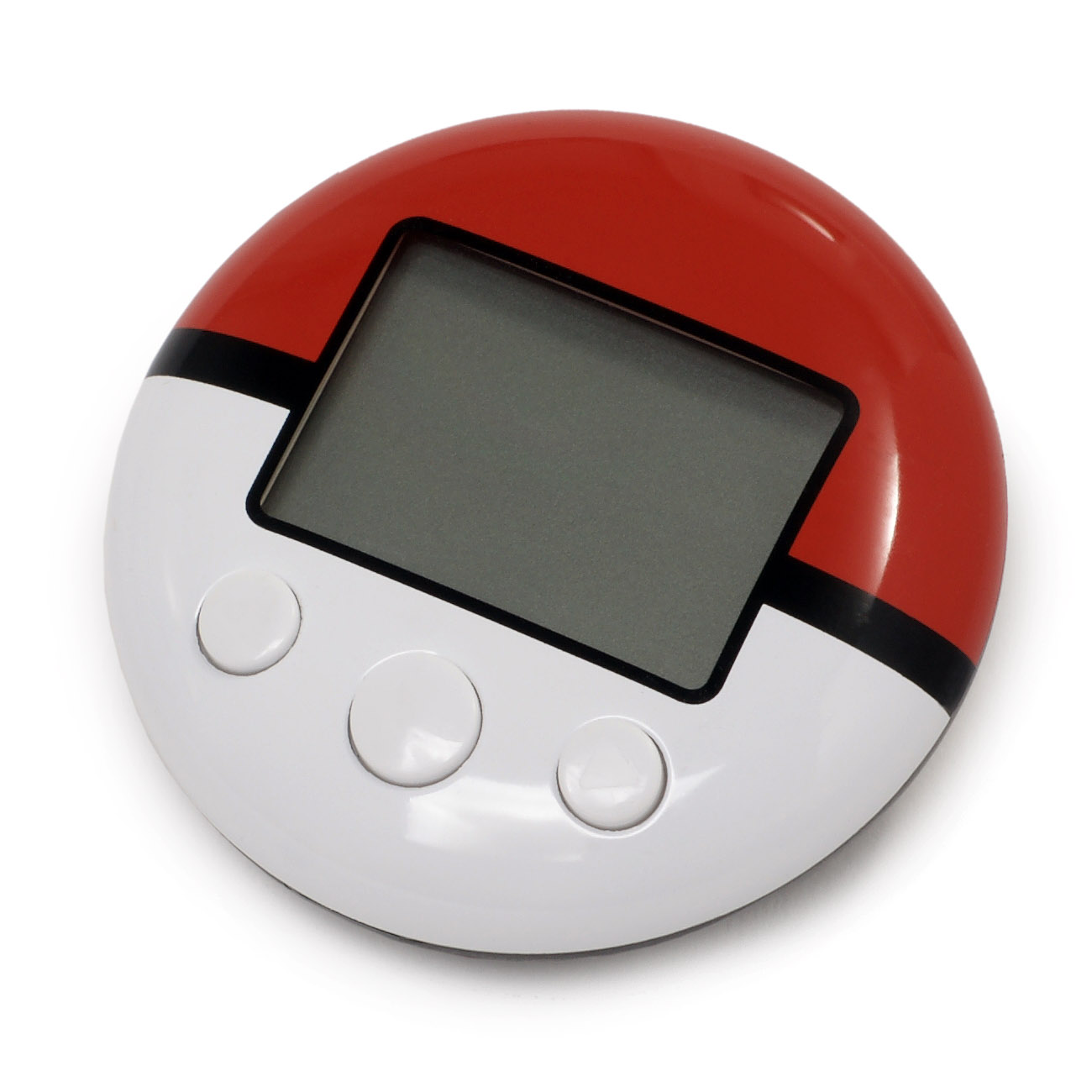 The PokeWalker, an accessory that comes packed in with the Soul Silver and Heart Gold versions of Pokemon for the Nintendo DS. It is a functioning pedometer that also lets you play little games at the expense of "watts" which are stored steps. It connects via an infrared port to the Pokemon cartridge for pokemon/watt transfer.